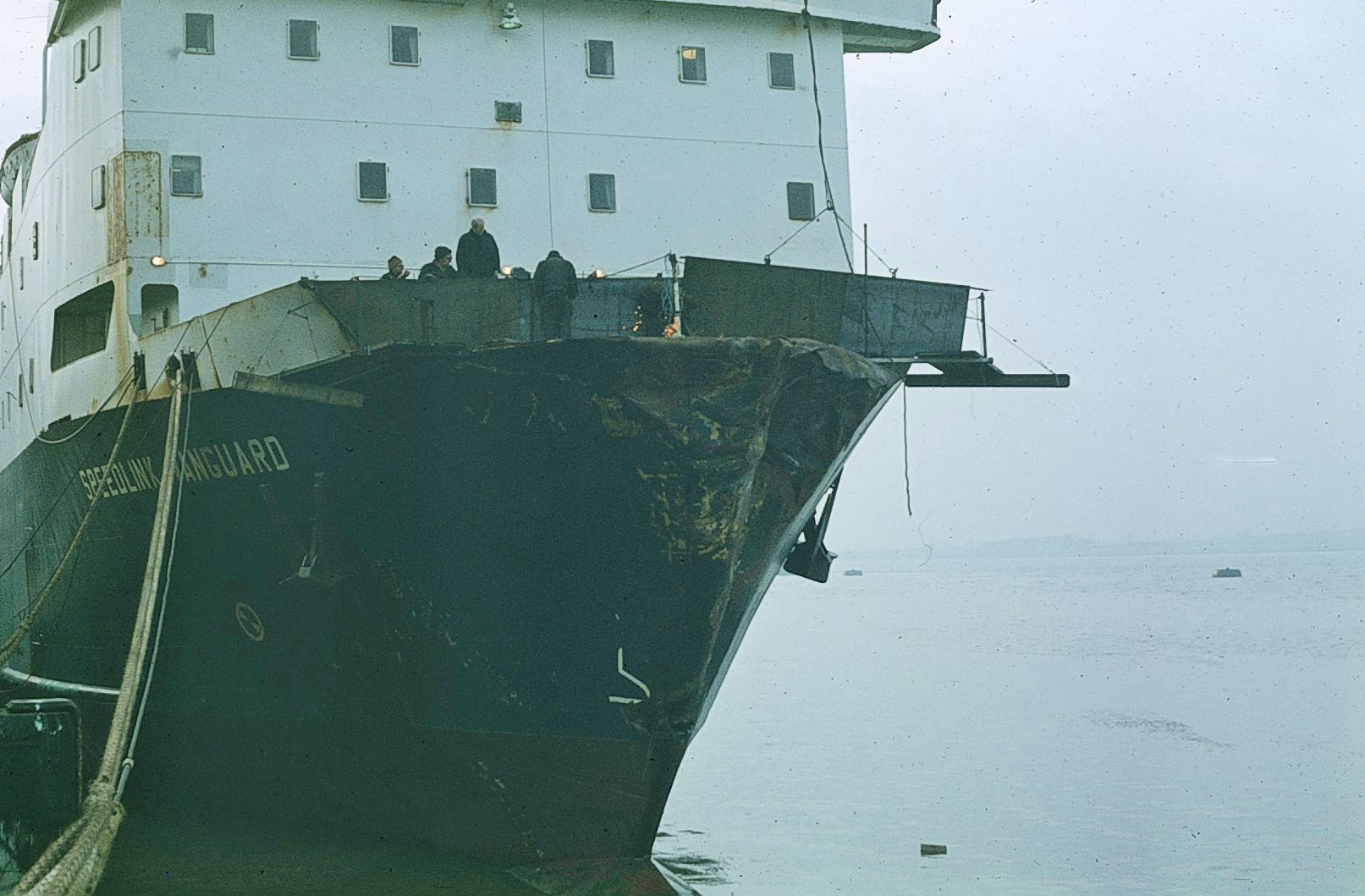 The ferry Speedlink Vanguard at Harwich on December 24, 1982 during reparations following its collision with the ferry European Gateway.